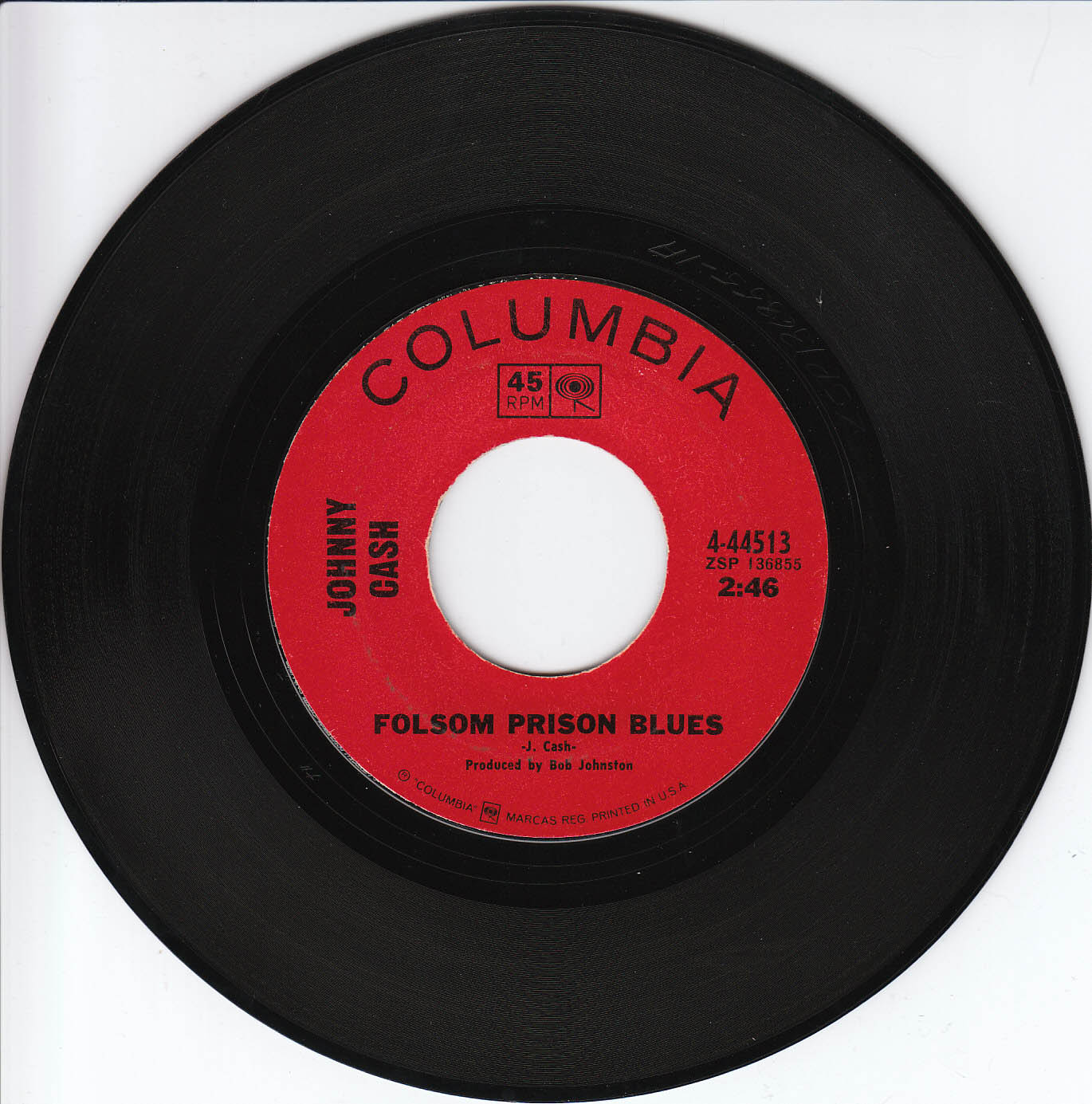 Folsom Prison Blues, Johnny Cash, Columbia